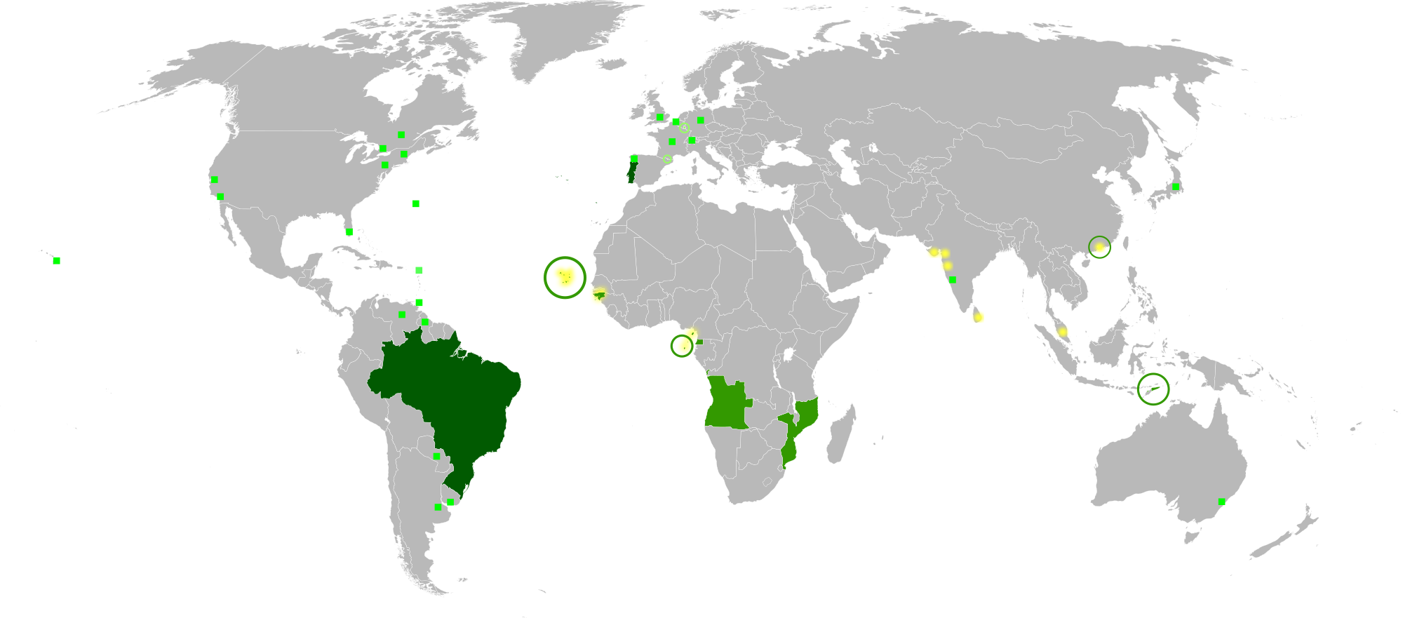 Map of the Portuguese language in the world Dark green: Native language. Green: Official and administrative language. Light Green: Cultural or secondary language. Yellow: Portuguese-based creole. Green square: Portuguese speaking minorities.